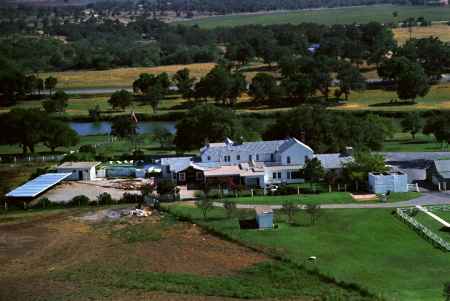 LBJ Ranch in 1967